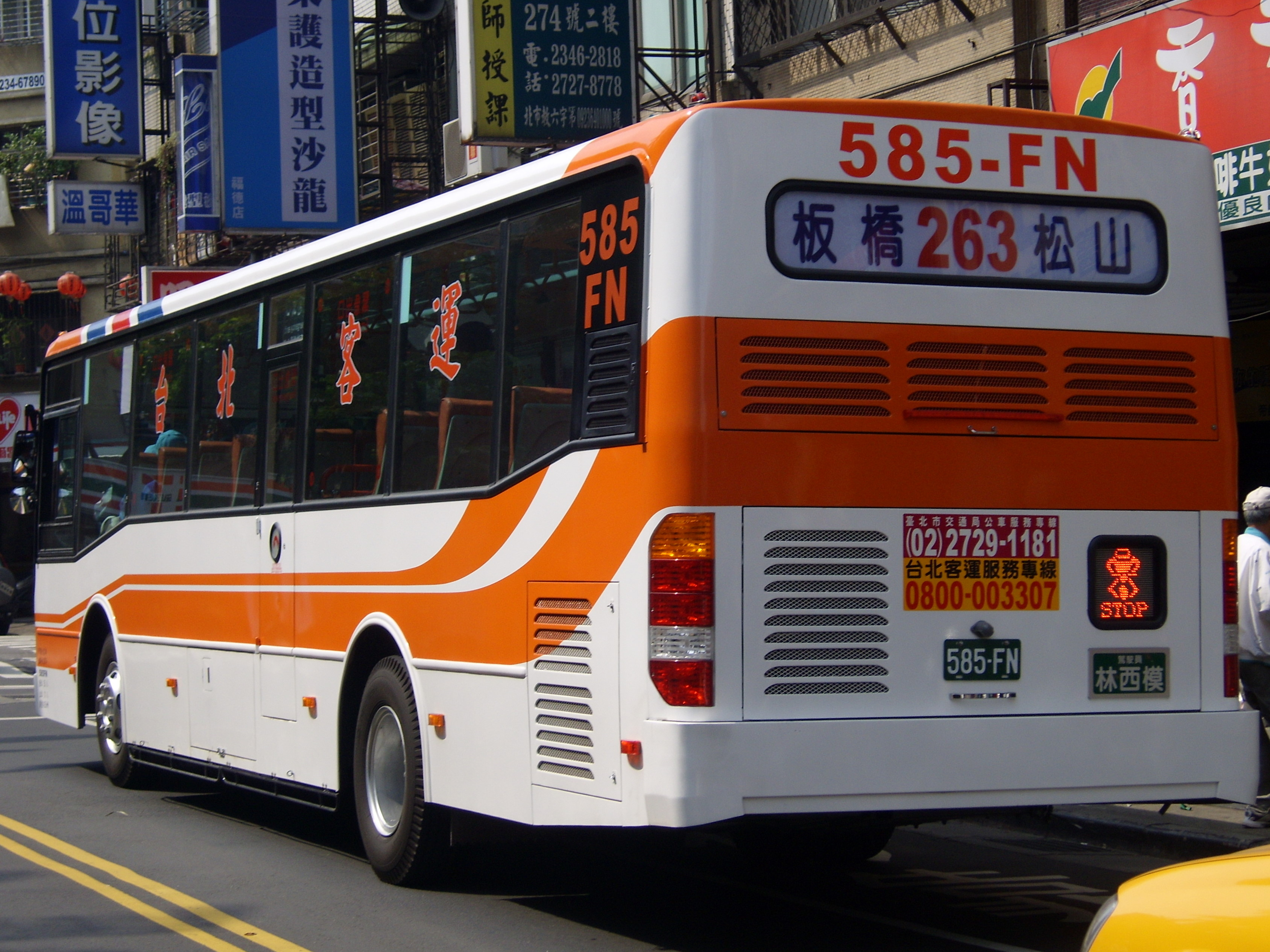 A brand new RK chassied us is constructed by Shing-sheng Automation Co., Ltd. and owned by Taipei Bus Co., Ltd.